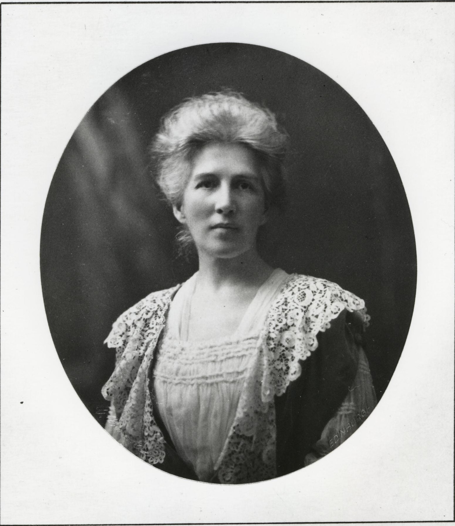 Henrietta Jex-Blake (1869-1953), former principal of Lady Margaret Hall, Oxford. Photo from the archives of Lady Margaret Hall